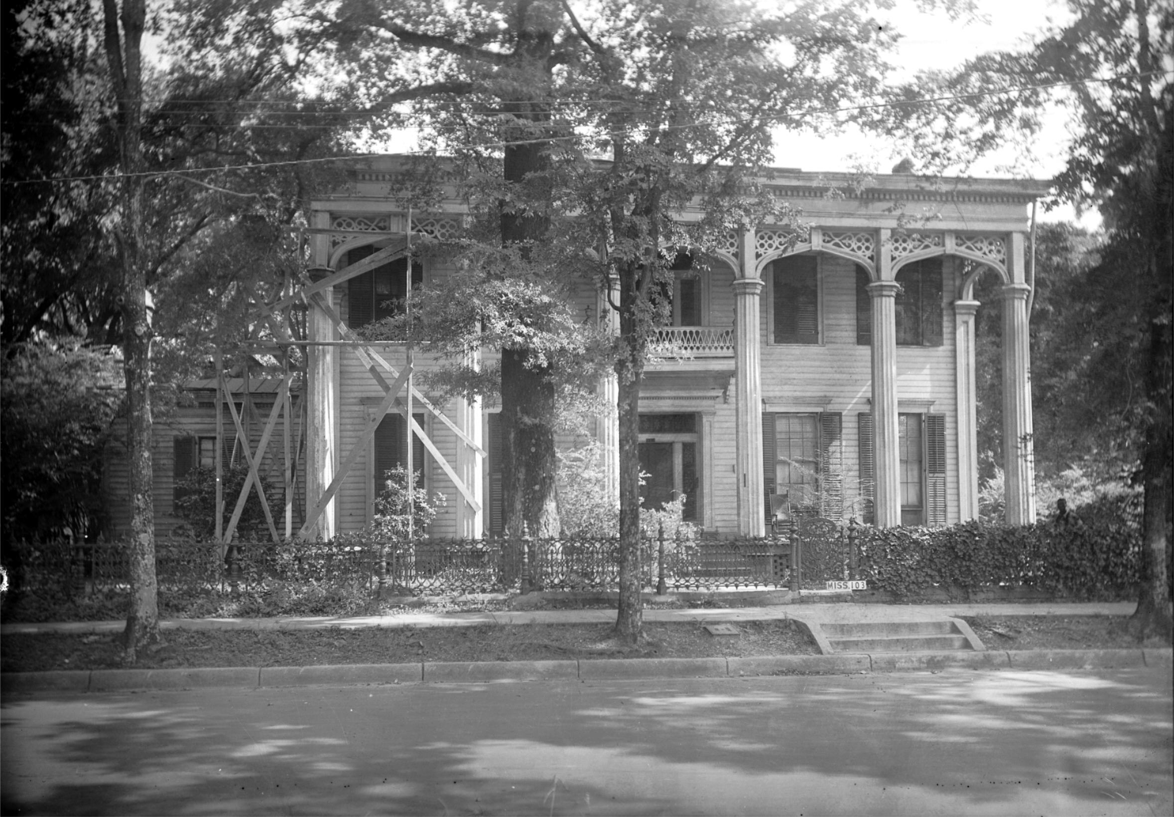 Weaver House, Columbus, Lowndes County, MS. SOUTHEAST ELEVATION.